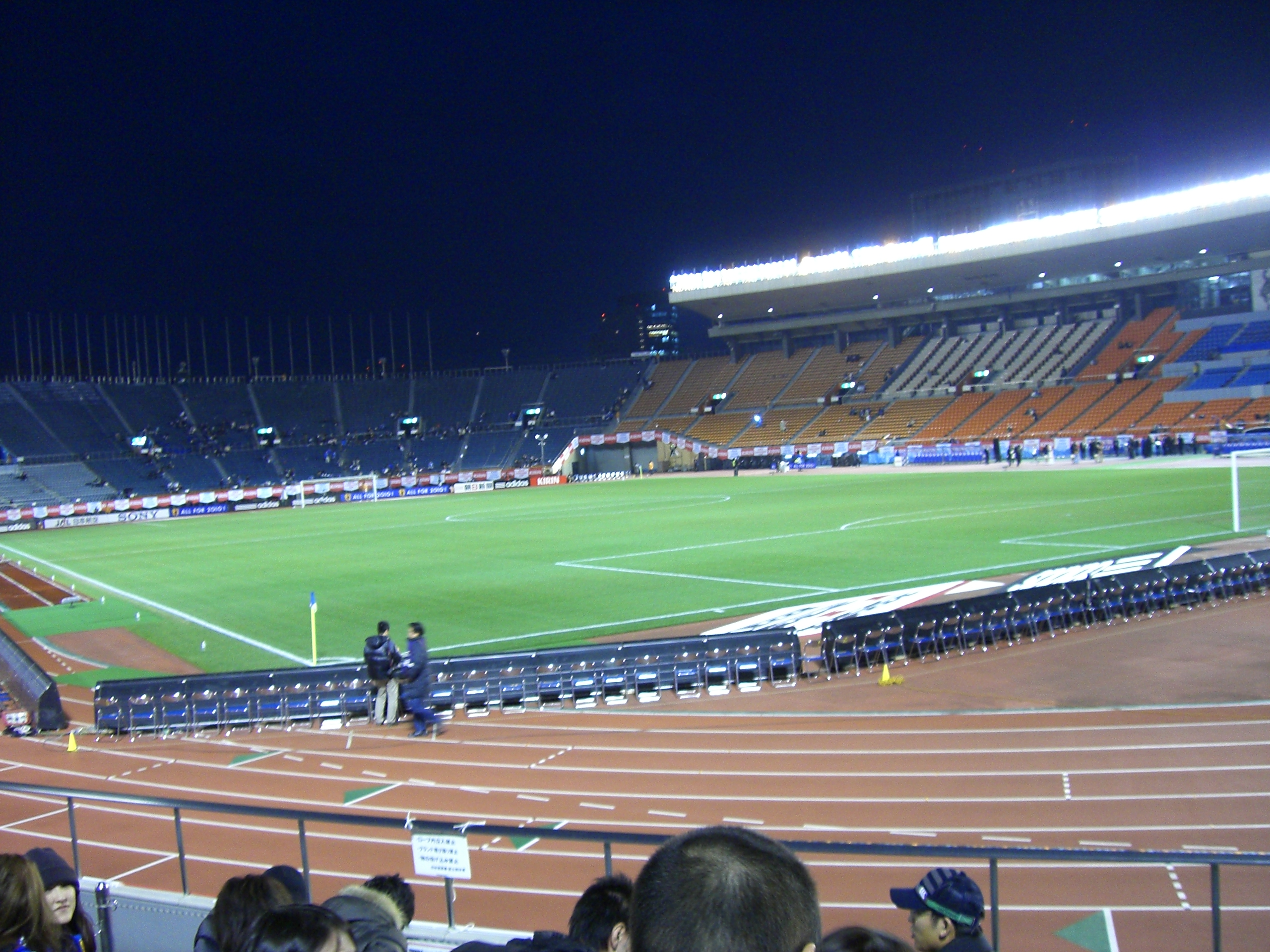 Kokuritsu Kasumigaoka Rikujo Kyogijo before Japan national football team v.s.Bosnia and Herzegovina national football team